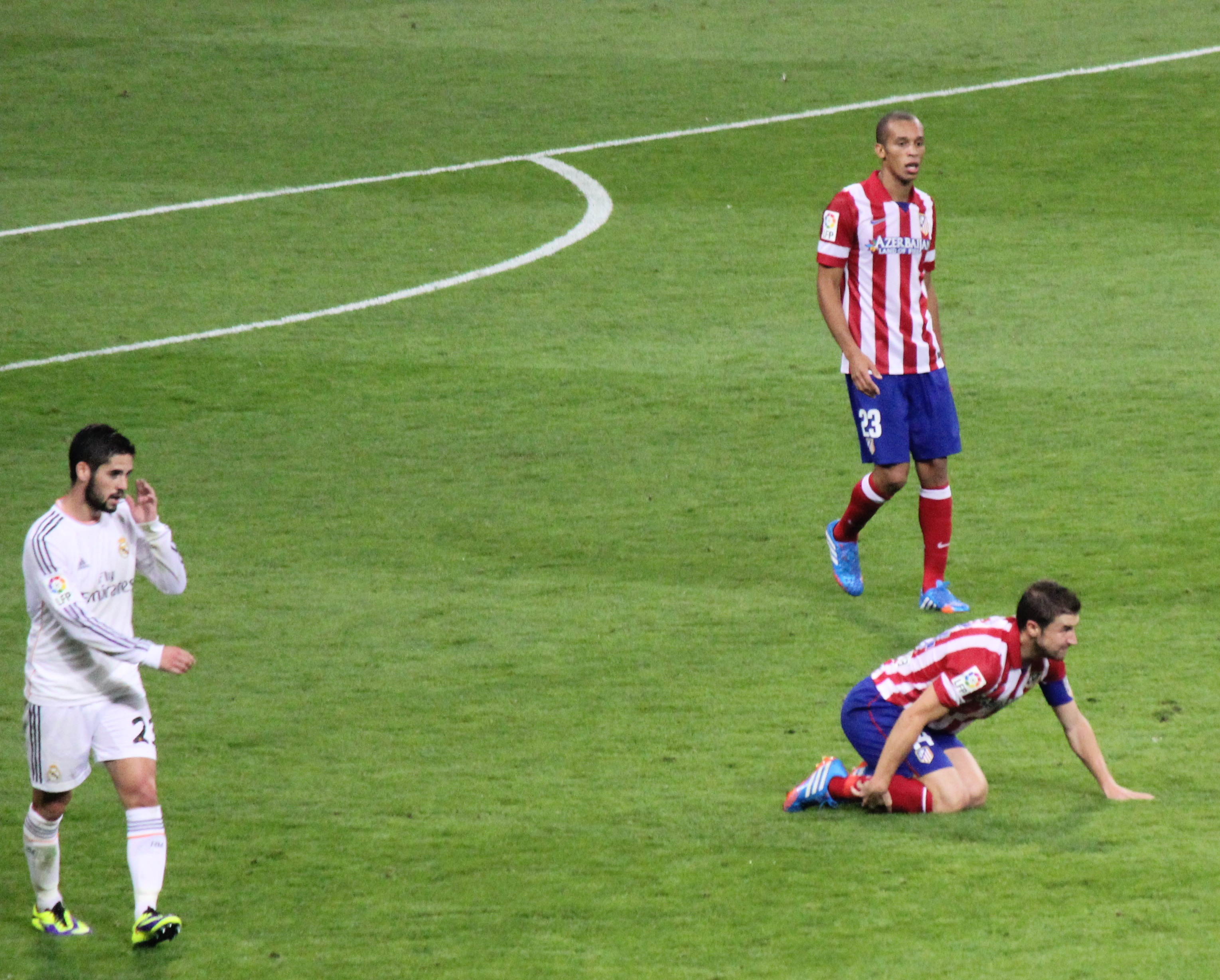 Isco playing for Real Madrid against Atlético Madrid on 28 September 2012 at a home game for Real Madrid.